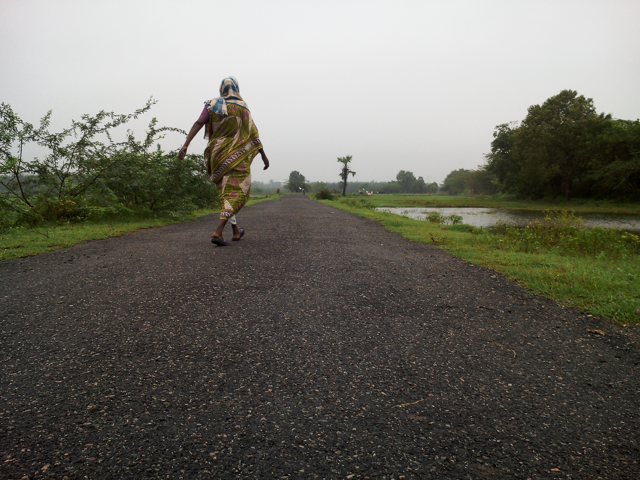 Image of a lonely aged woman walks on road